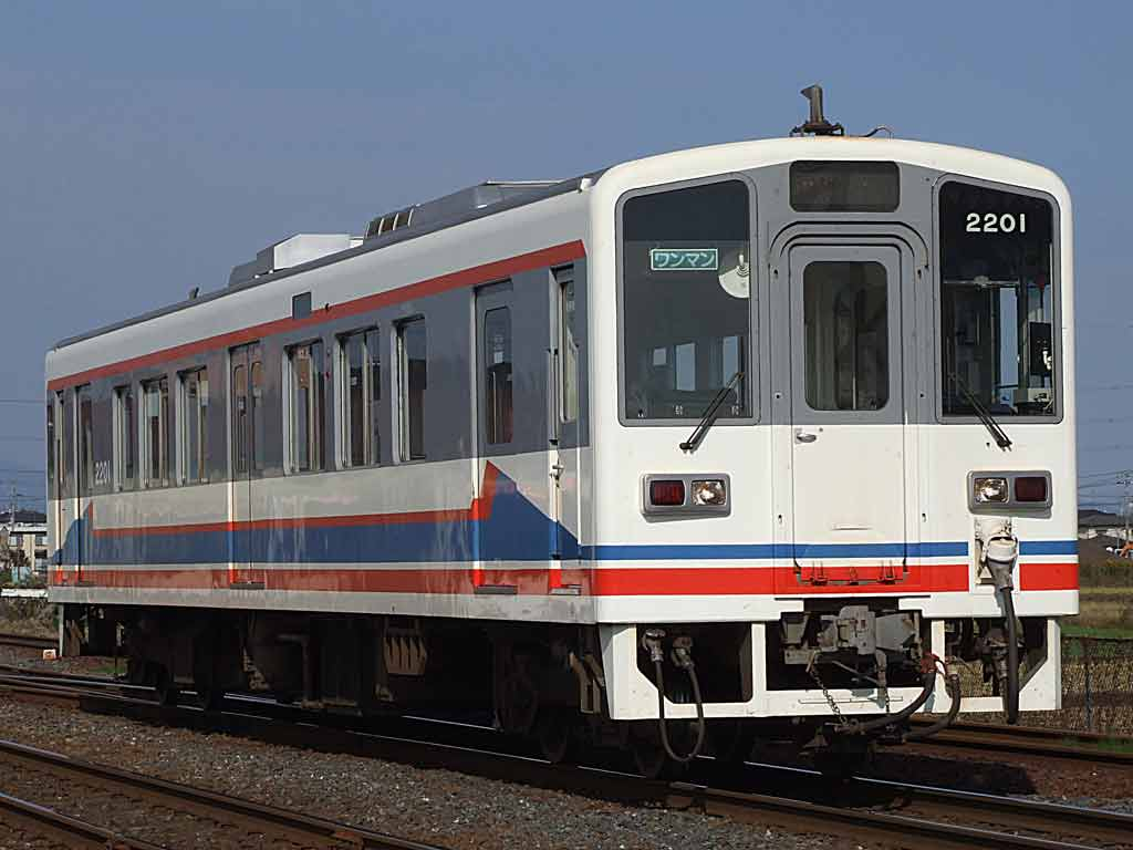 Kanto Railway KiHa 2200 series DMU car 2201